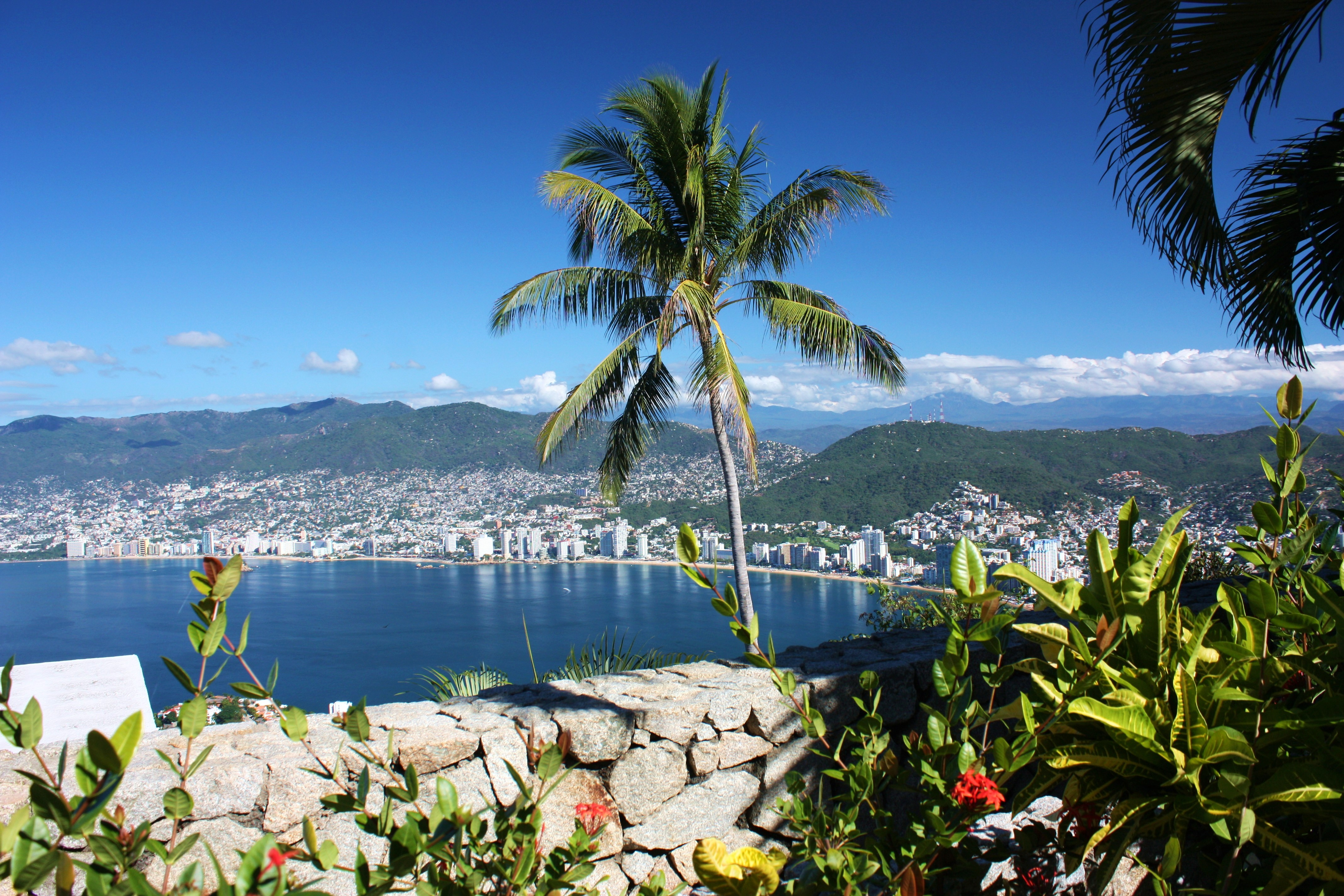 Shots from sailing in and out of Acapulco and stops on the Rosie Tour of Acapulco